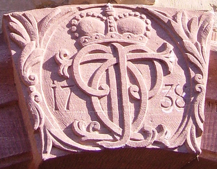 historic fountain of Heidelberg castle (Heidelberger Schloss)